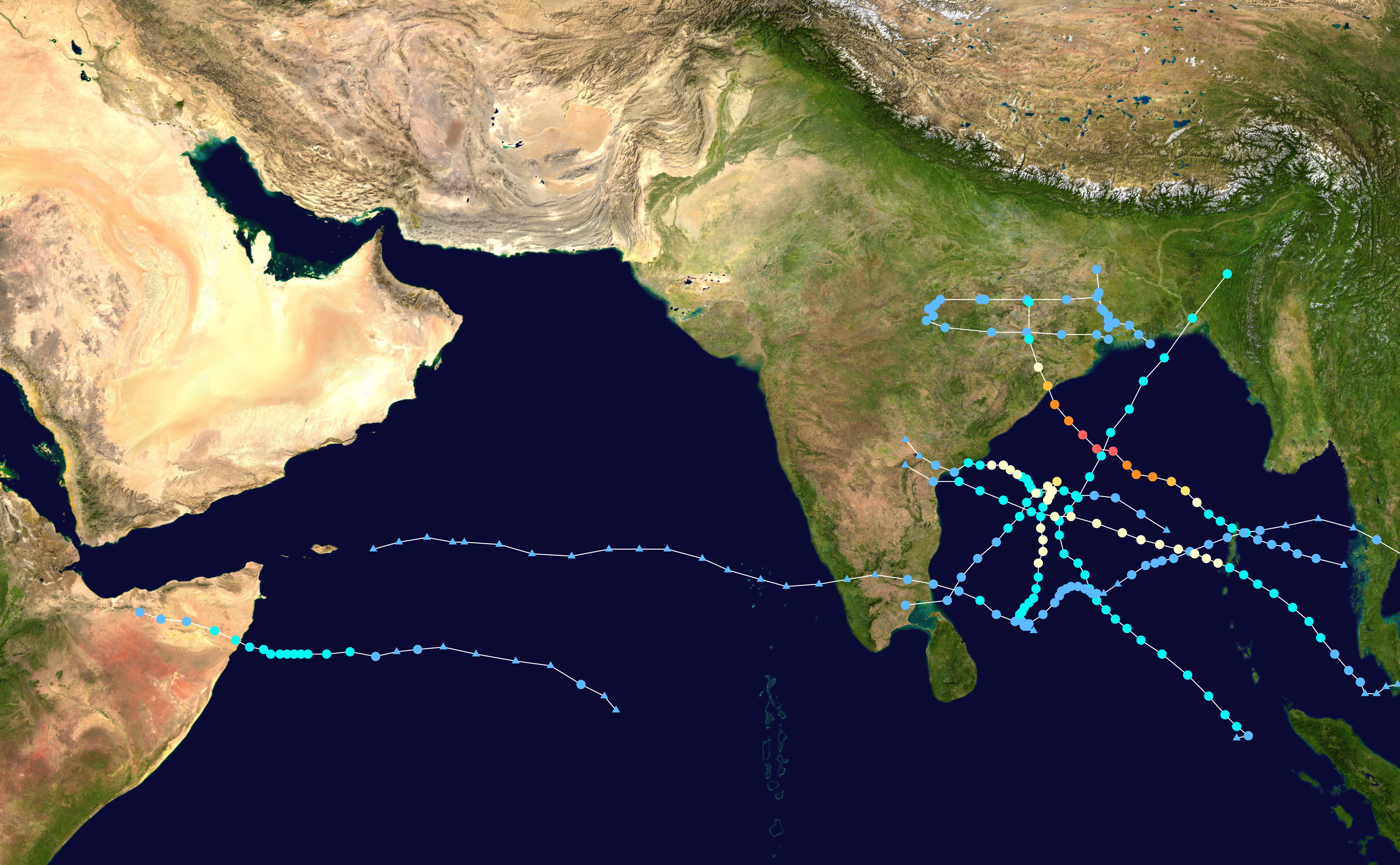 This map shows the tracks of all tropical cyclones in the 2013 North Indian Ocean cyclone season. The points show the location of each storm at 6-hour intervals. The colour represents the storm's maximum sustained wind speeds as classified in the Saffir-Simpson Hurricane Scale (see below), and the shape of the data points represent the type of the storm. Map generation parameters: --xmin 45 --xmax 100 Saffir–Simpson scale Tropical depression≤38 mph≤62 km/h Category 3111–129 mph178–208 km/h Tropical storm39–73 mph63–118 km/h Category 4130–156 mph209–251 km/h Category 174–95 mph119–153 km/h Category 5≥157 mph≥252 km/h Category 296–110 mph154–177 km/h Unknown Storm type Tropical cyclone Subtropical cyclone Extratropical cyclone / Remnant low / Tropical disturbance / Monsoon depression